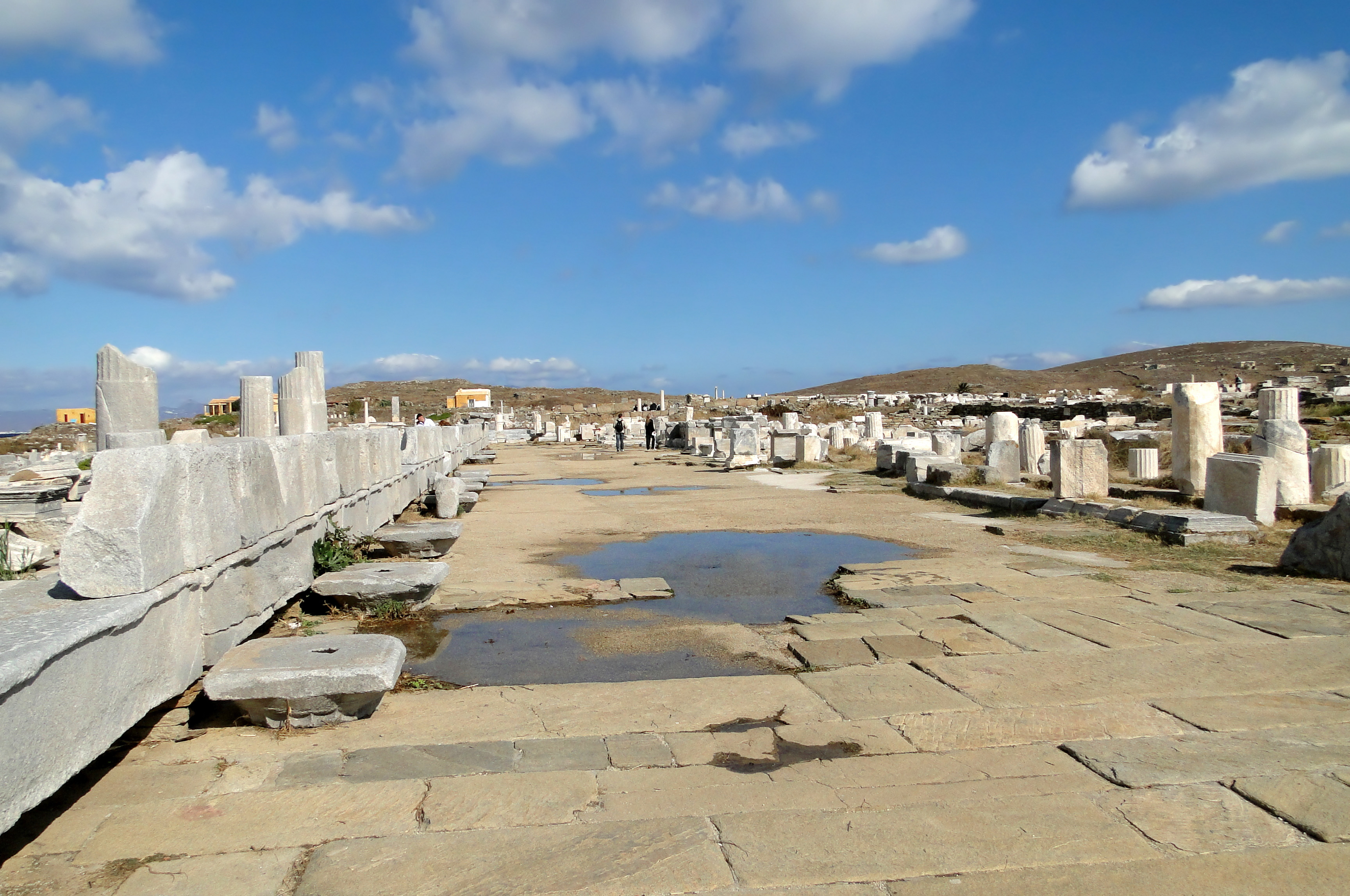 The Sacred Way in Delos, Greece